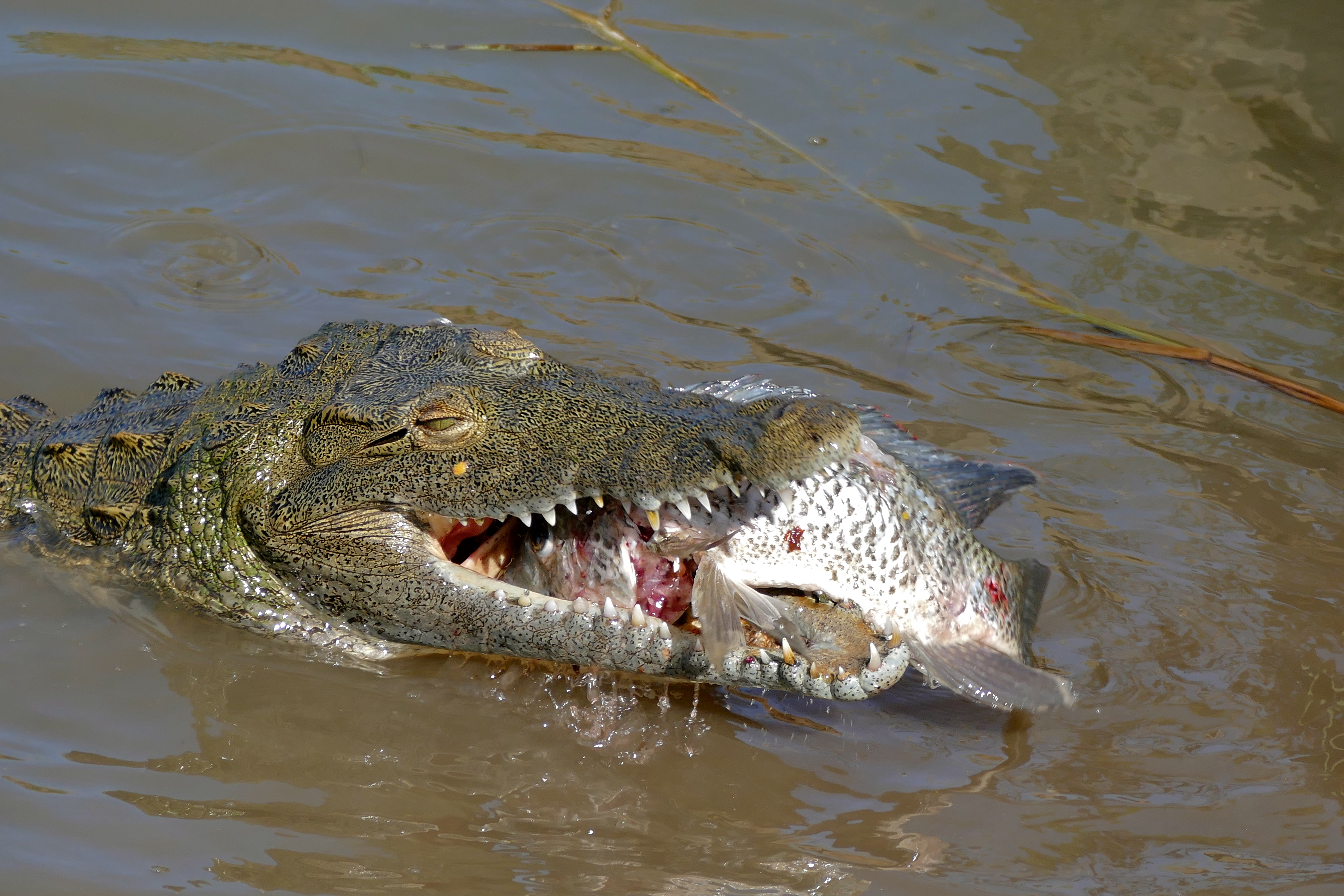 Sabie Bridge, H10 Road East of Lower Sabie, Kruger NP, SOUTH AFRICA